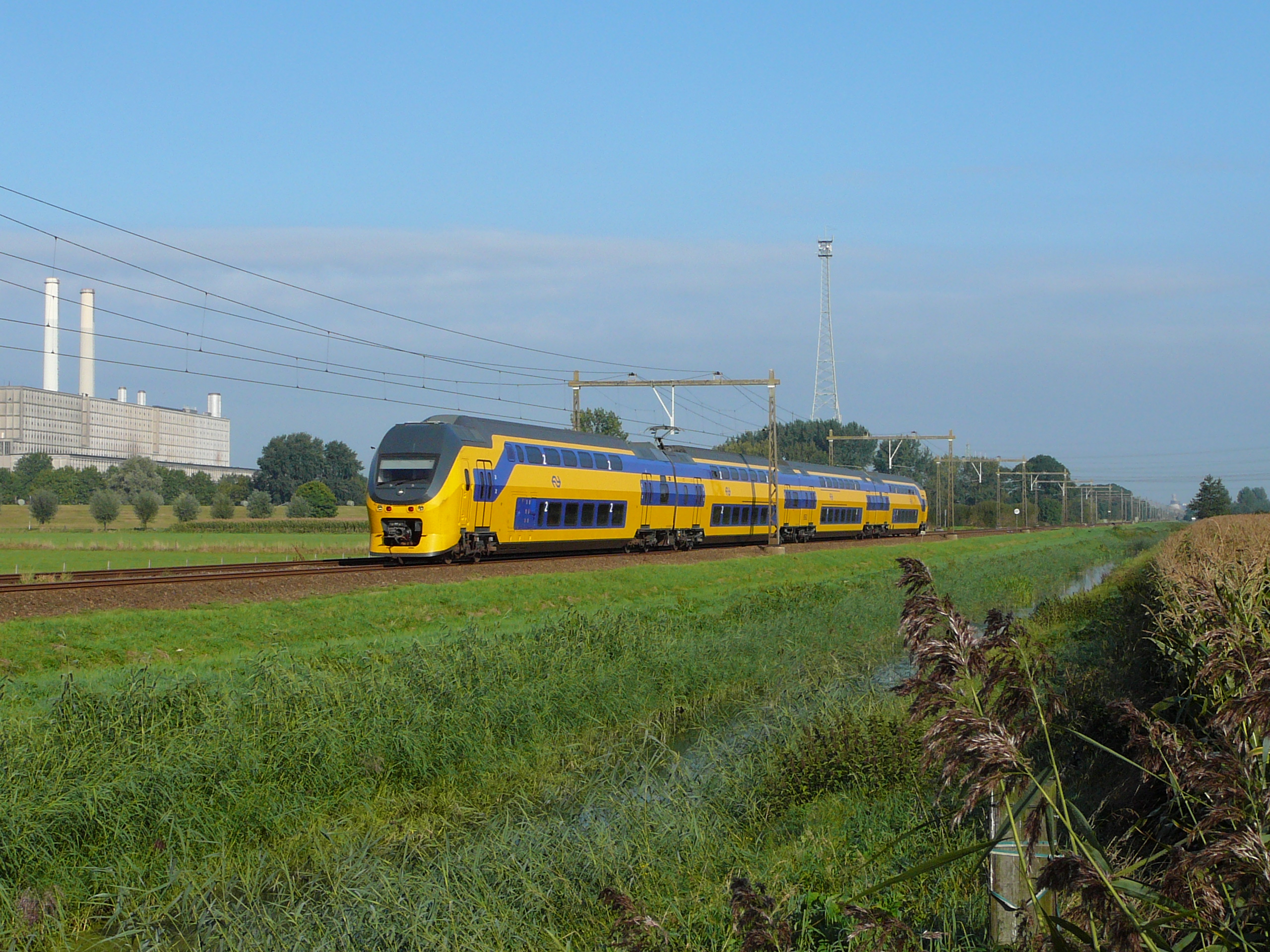 A VIRM unit at Harculo heading towards Nijmegen from Zwolle.